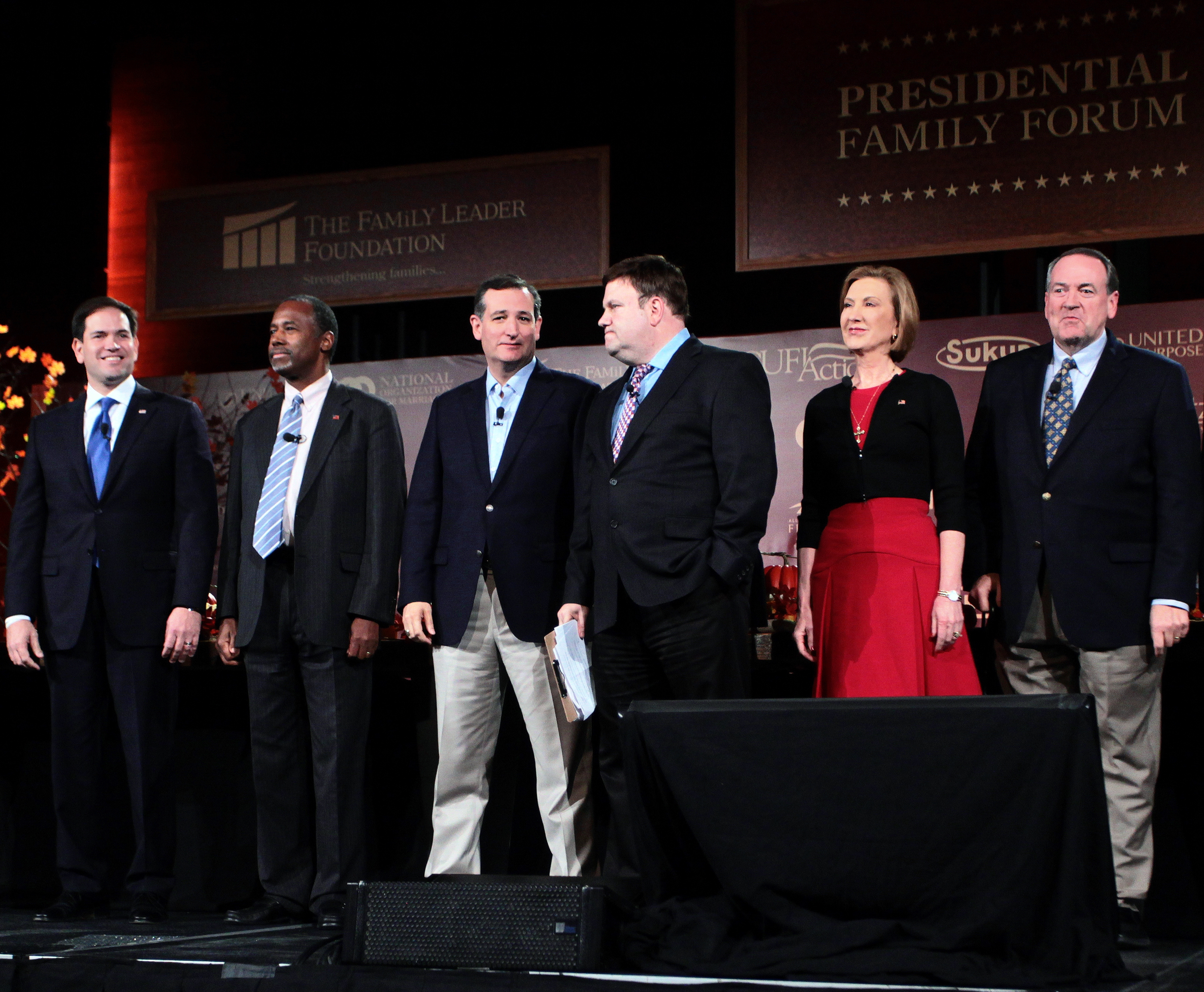 hosted by the Family Leader